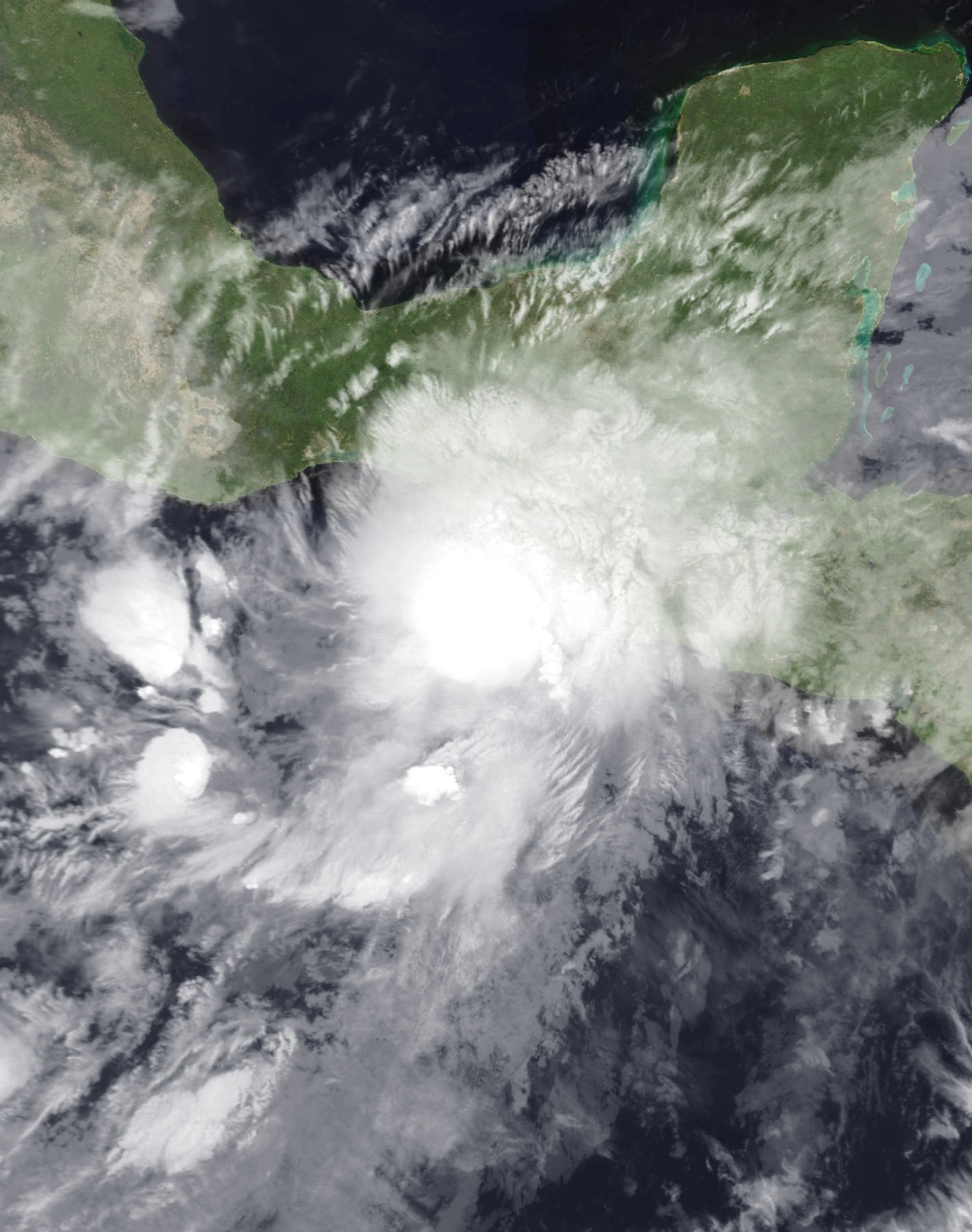 Tropical Storm Agatha near peak intensity off the coast of Guatemala on May 29